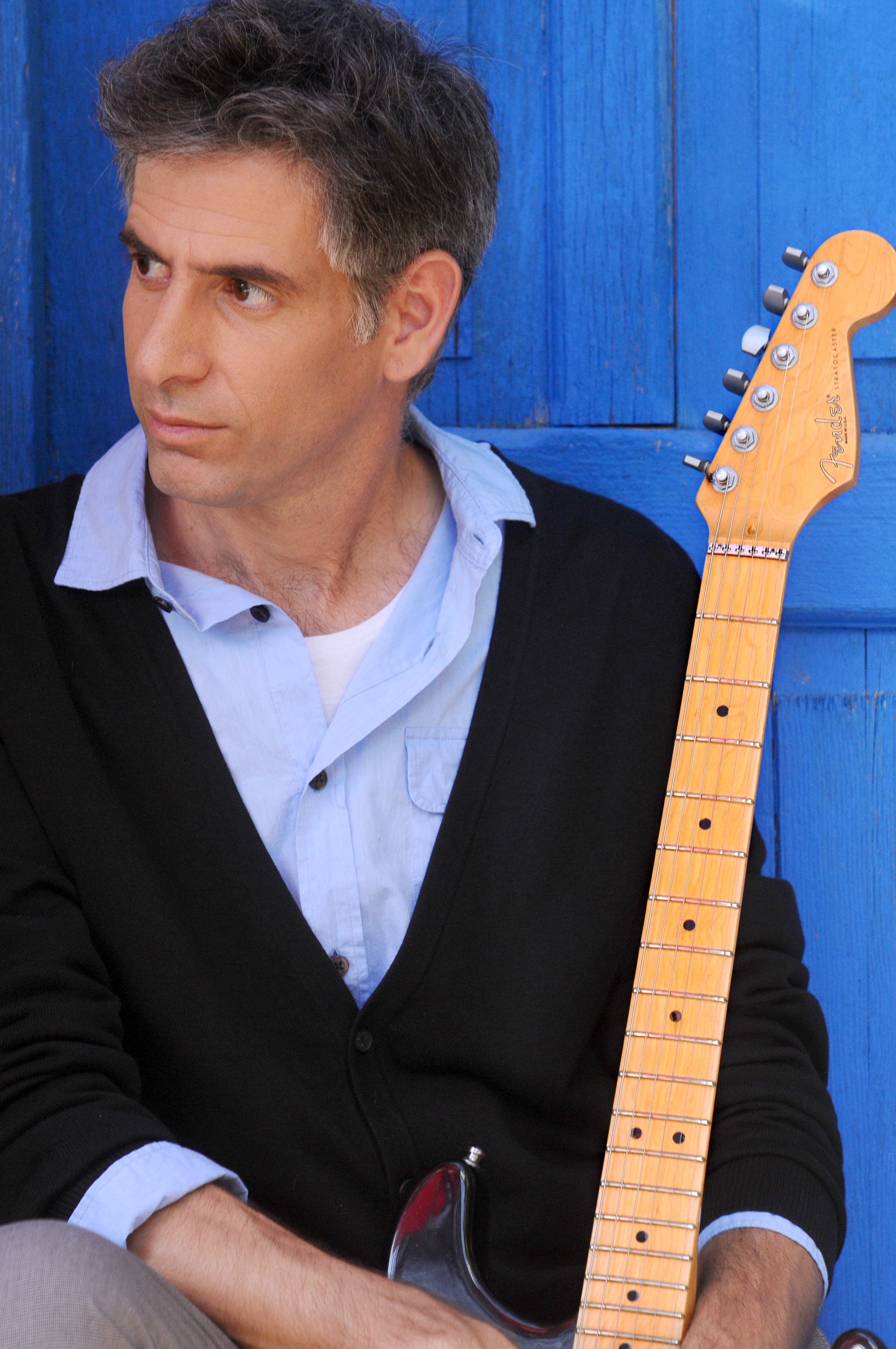 Gilad Hesseg Portrait